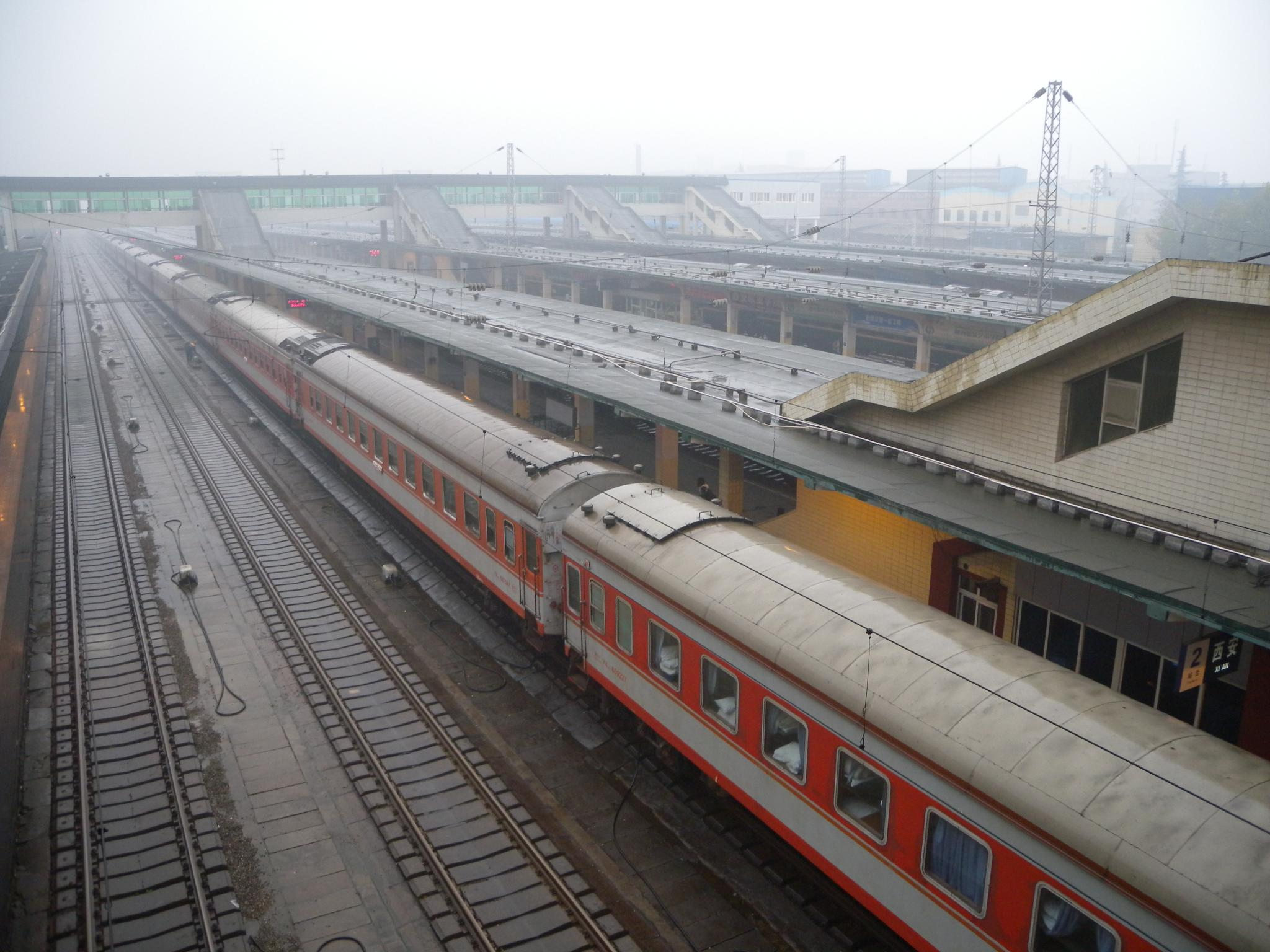 Any use of this photo should credit Ryan McFarland and direct a link to Thank you. Want to know more of the story of this picture from the second day in Xi'an? Go to my site and do a search for the image title.